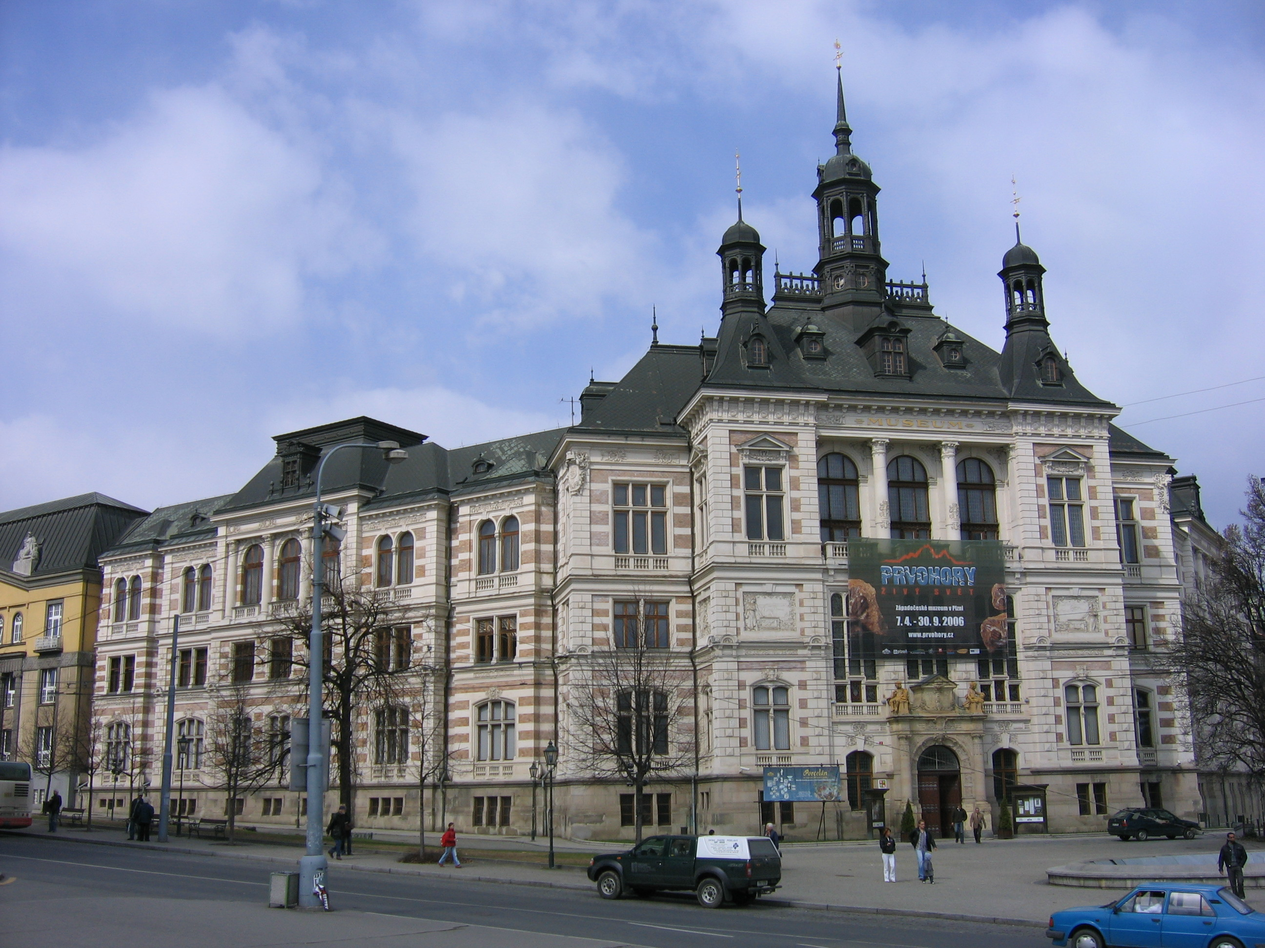 Museum of Western Bohemia, City of Plzeň, Czech Republic. Pilsen, Tschechien.